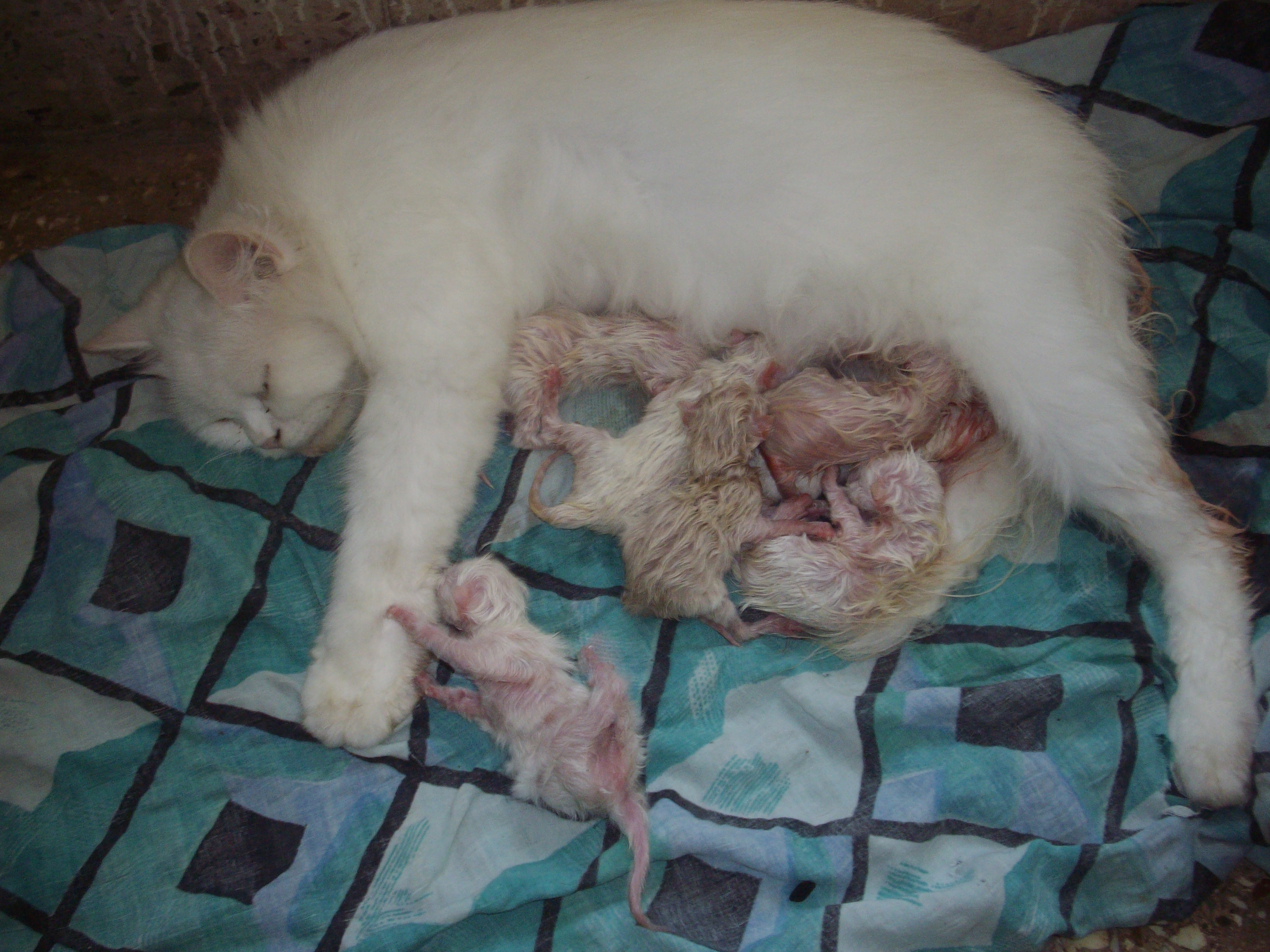 Persian cat Matahari absolutely exhausted after delivering 6 live kittens in a span of 3 hrs(0800 to 1100hrs).This photo was removed just after the delivery of the last kitten on Sunday(29-3-2009) at Mumbai.